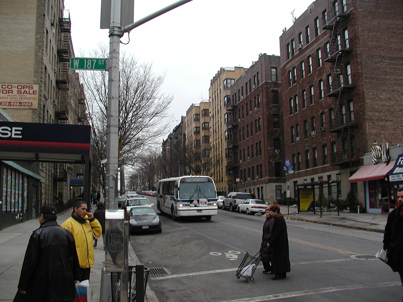 Apartment building on Fort Washington Avenue in Hudson Heights Manhattan NYC. View looking south from the corner of 187th Street. Category:Photographs by User:Petri Krohn